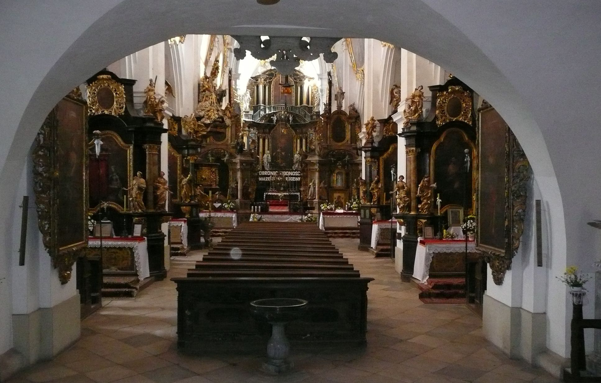 Henrykow - St. Mary church inside